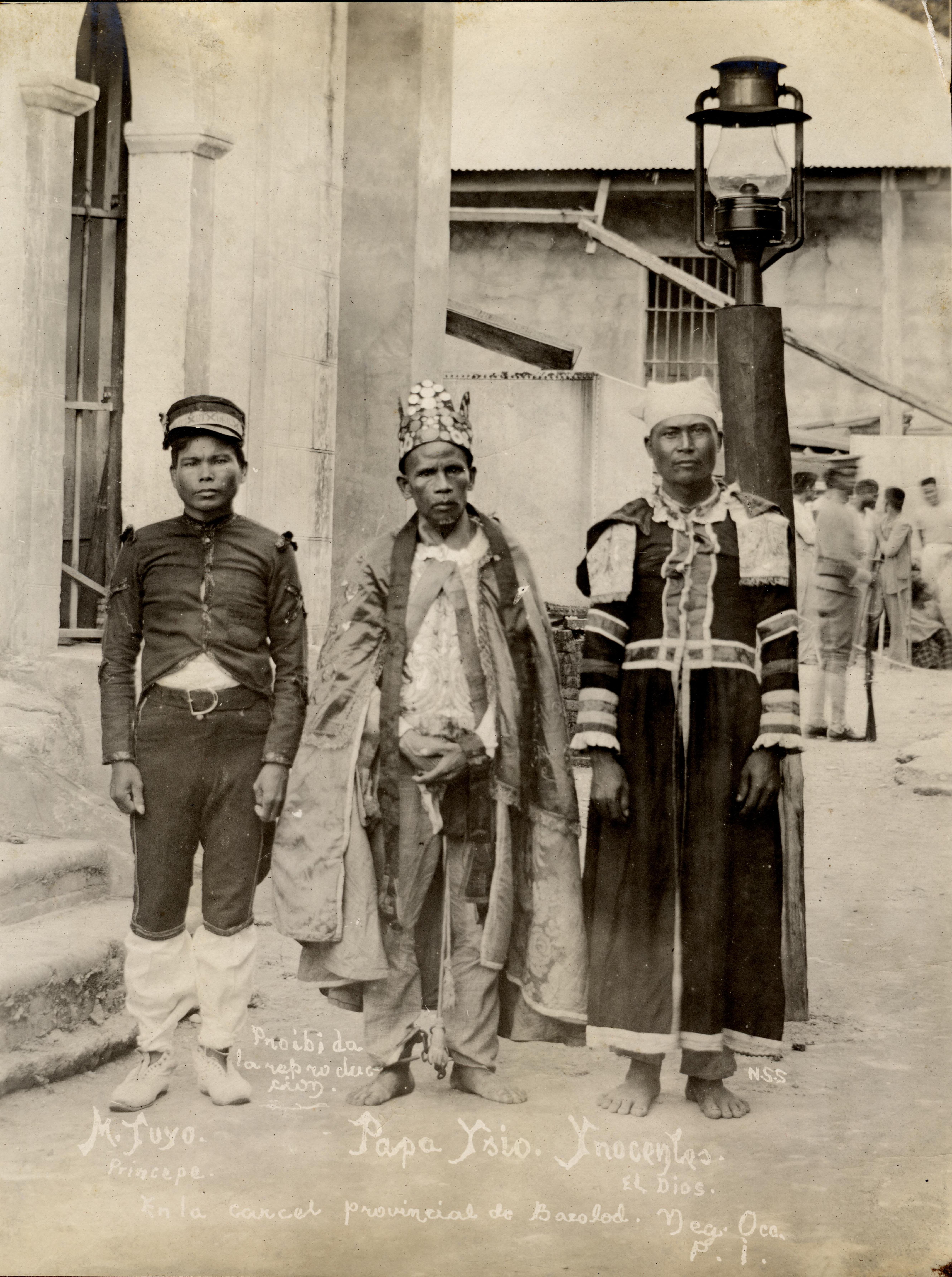 "Papa Isio" (Dionisio Magbuelas), with two followers in a prison in Bacolod City in 1907. Isio was a religious leader who led anti-colonial uprisings in Negros in 1896. He became the military chief of the municipality of La Castellana under the Cantonal Government of Negros in November 1898. He also fought the American colonizers in 1899-1907. He surrendered on August 6, 1907, and died at the Manila Bilibid Prison in 1911